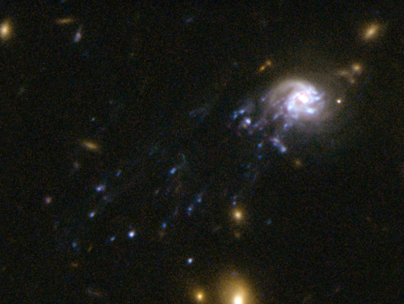 The Comet Galaxy is a spiral galaxy located 3.2 billion light-years from Earth, in the galaxy cluster Abell 2667.